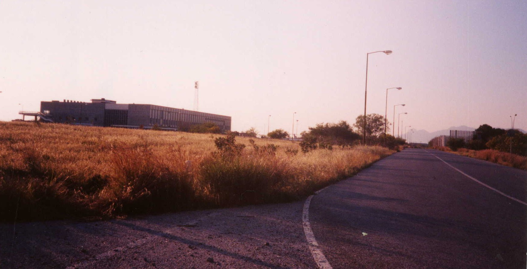 A view of the south side of the terminal building at the closed Nicosia International Airport in the United Nations Buffer Zone in Cyprus.